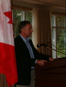 The Honourable Rob Nicholson